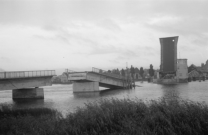 Original image description from the Deutsche Fotothek Sommer 1946